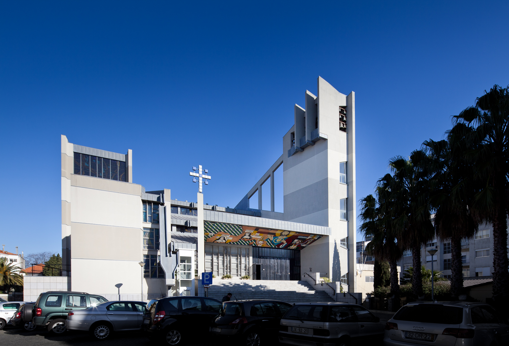 Carvalhido Church, Oporto - 1969 - Luís Cunha